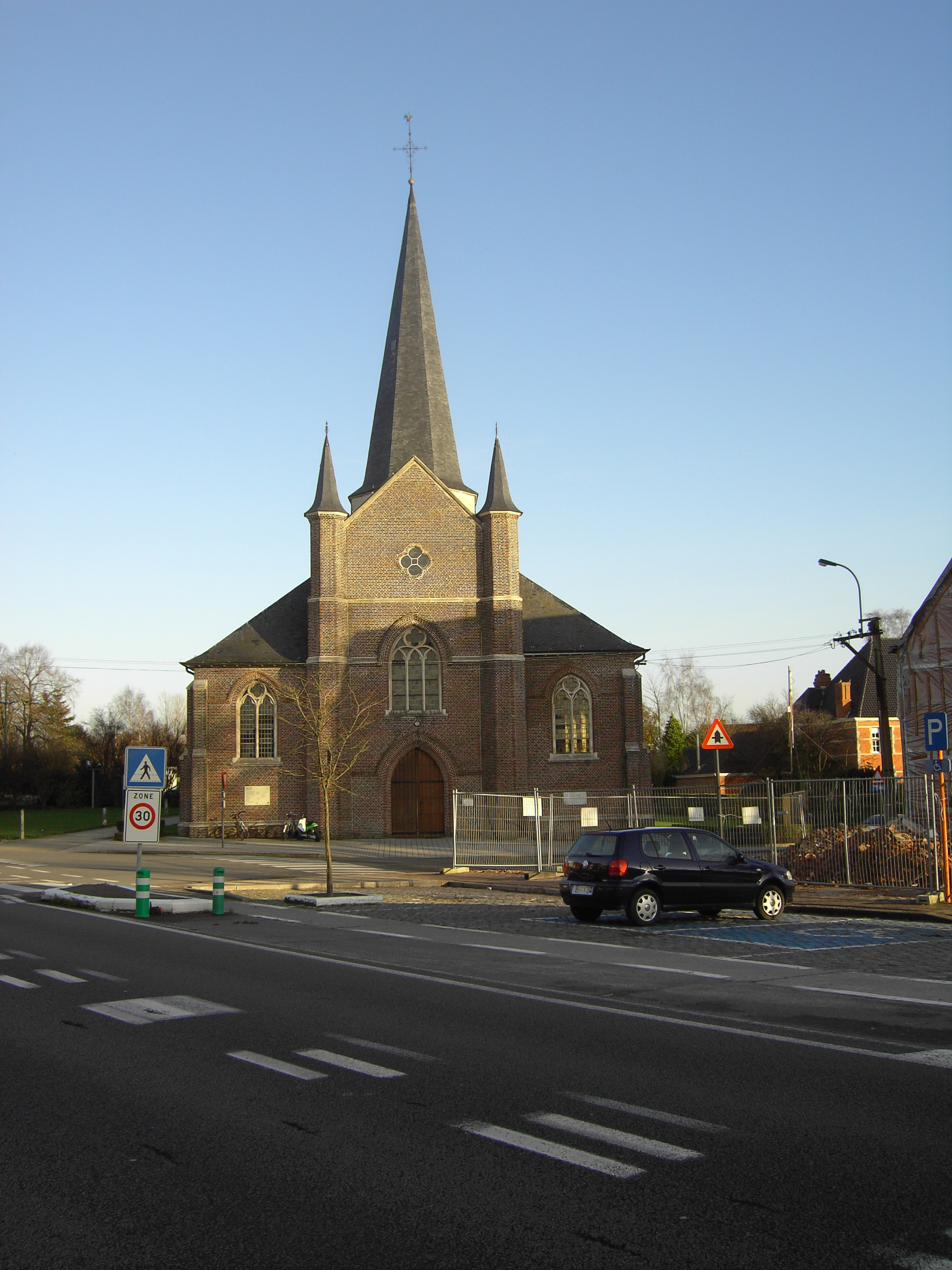 Church of Saint Medardus in Ursel. Ursel, Knesselare, East Flanders, Belgium